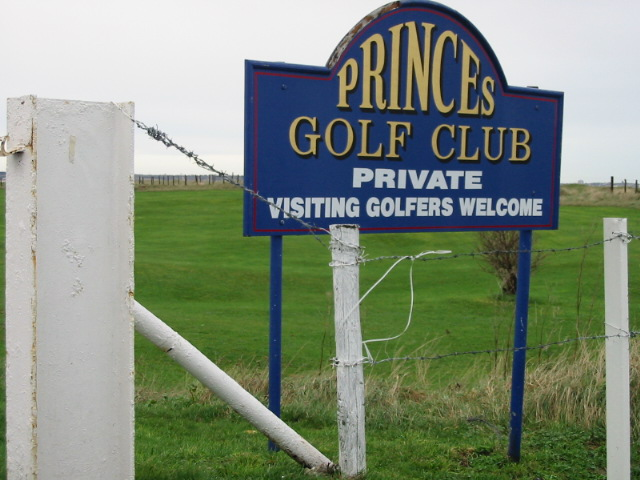 Sign for Prince's Golf Club, Sandwich Bay.